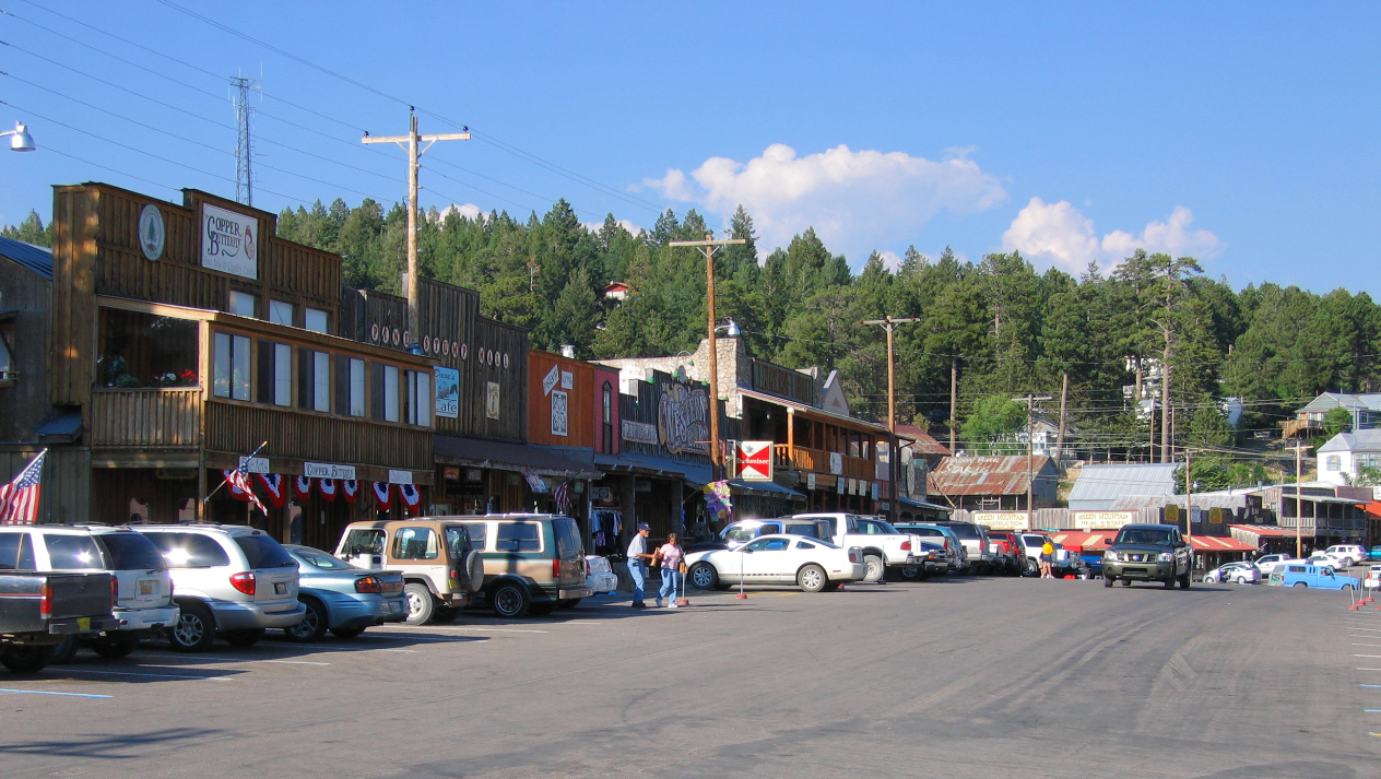 Downtown Cloudcroft, New Mexico, USA; taken on Burro Avenue looking east.